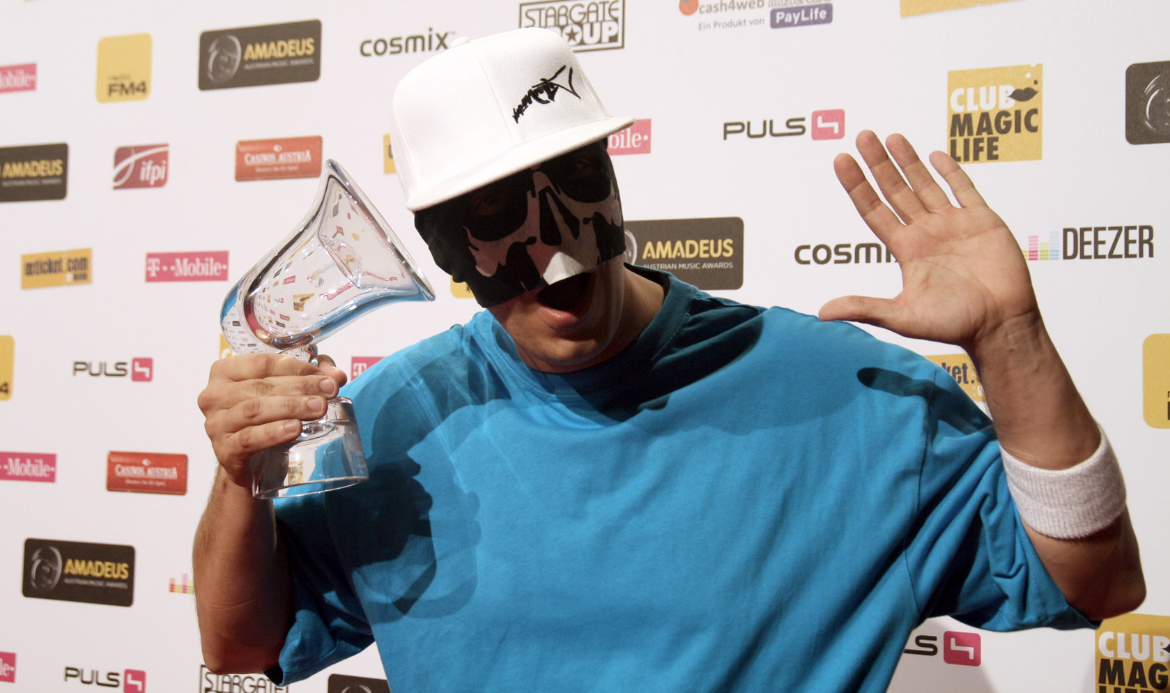 Die Vamummtn, Amadeus Austrian Music Award 2012 at the Volkstheater in Vienna, Austria.